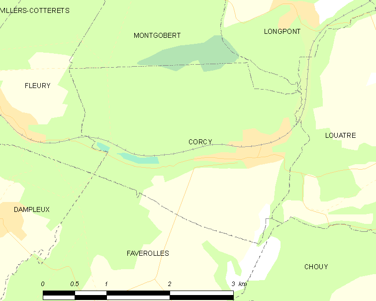 Map of French commune: Corcy Map commune FR insee code 02216.png